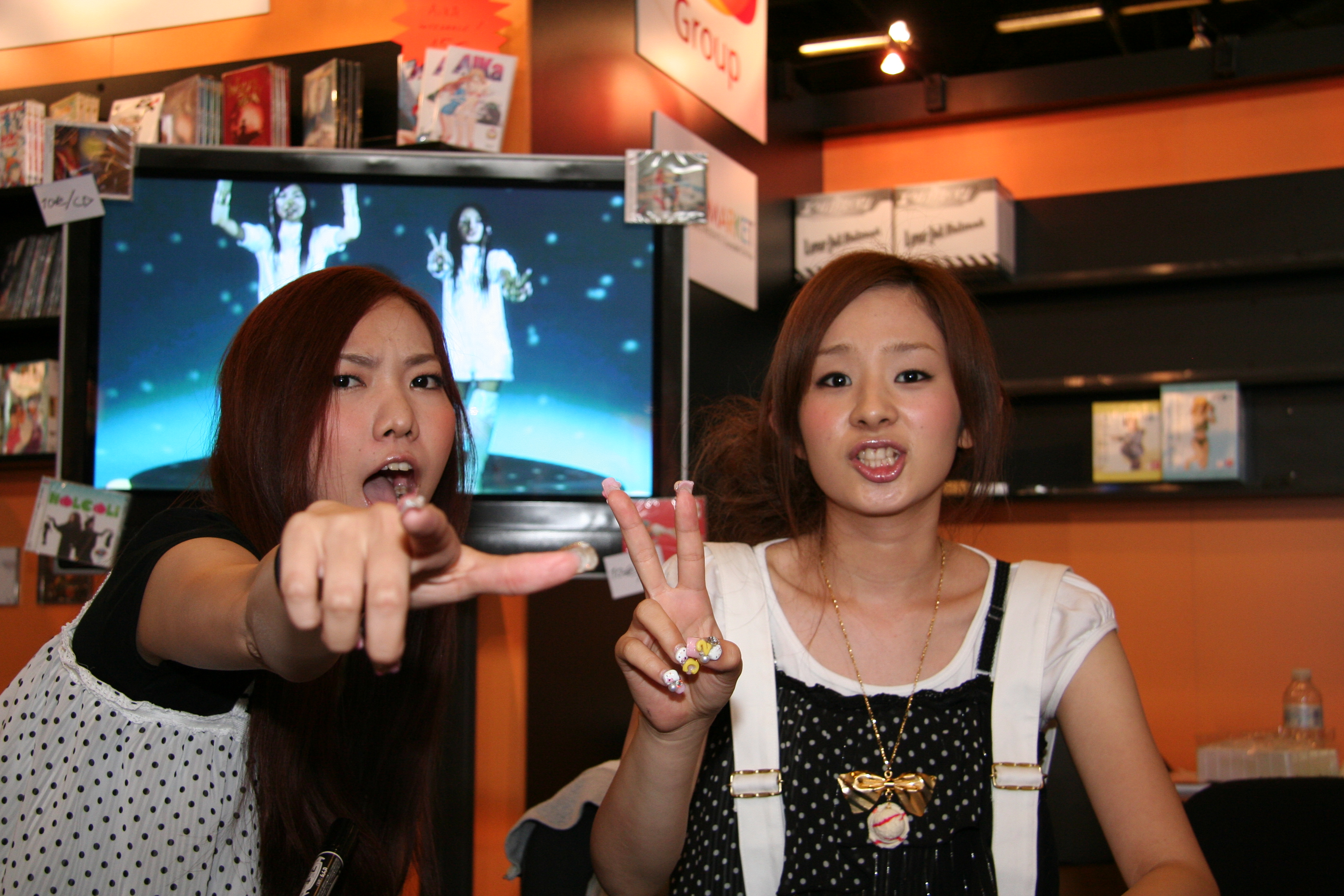 Autograph session with Halcali at Japan Expo 2007 (Paris, France).